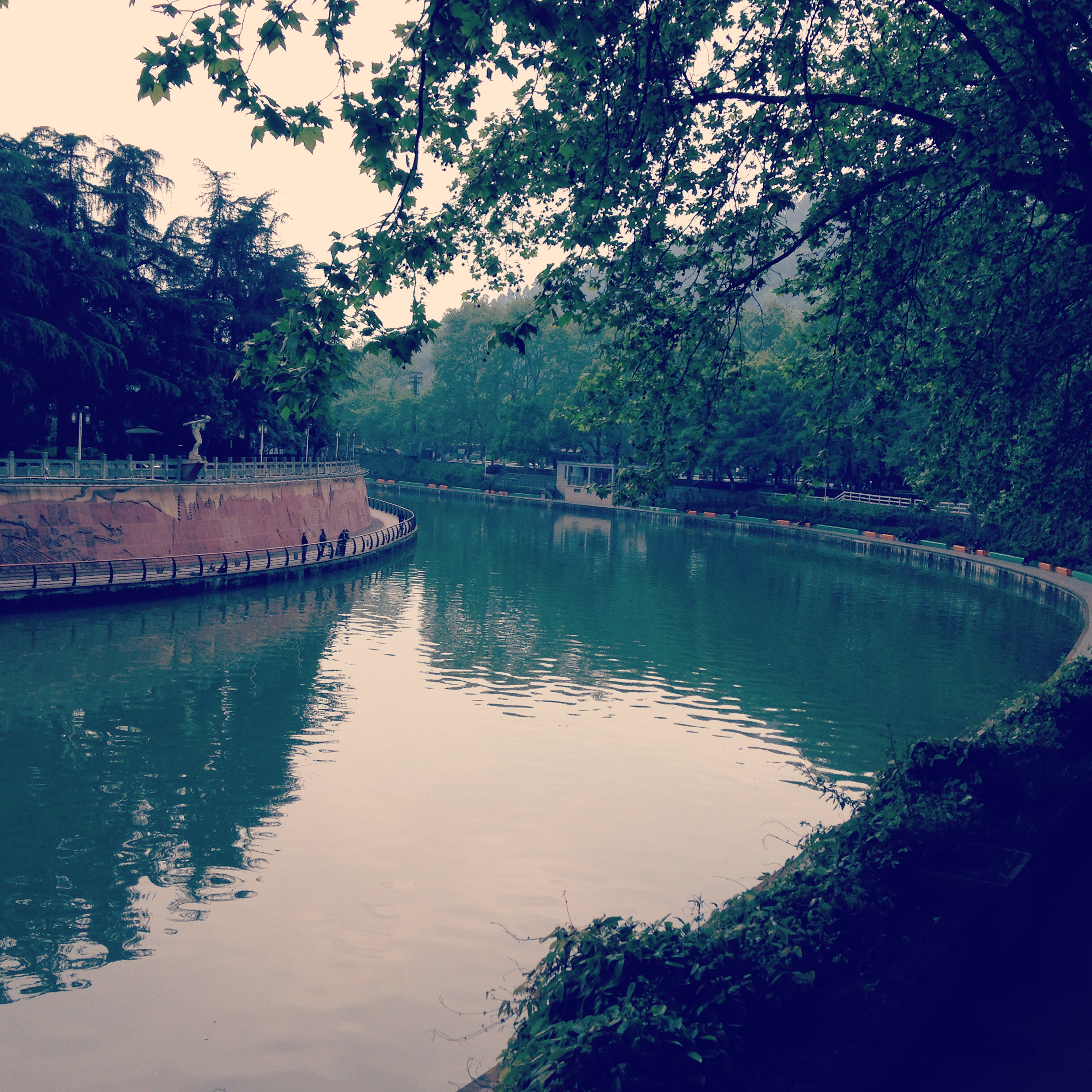 Riverwalk in Zunyi